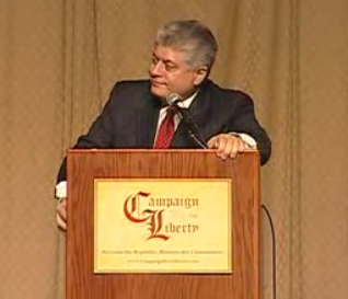 Judge Andrew Napolitano speaks in St. Louis.This is a picture I took.